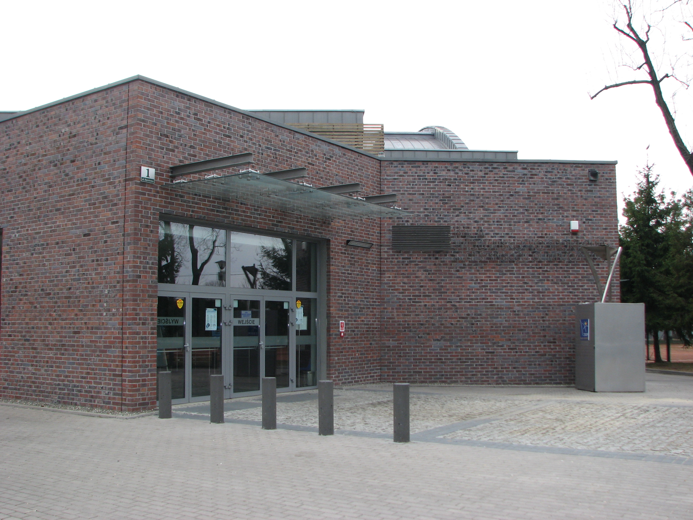 Sports hall in Cieszyn - main entrance.